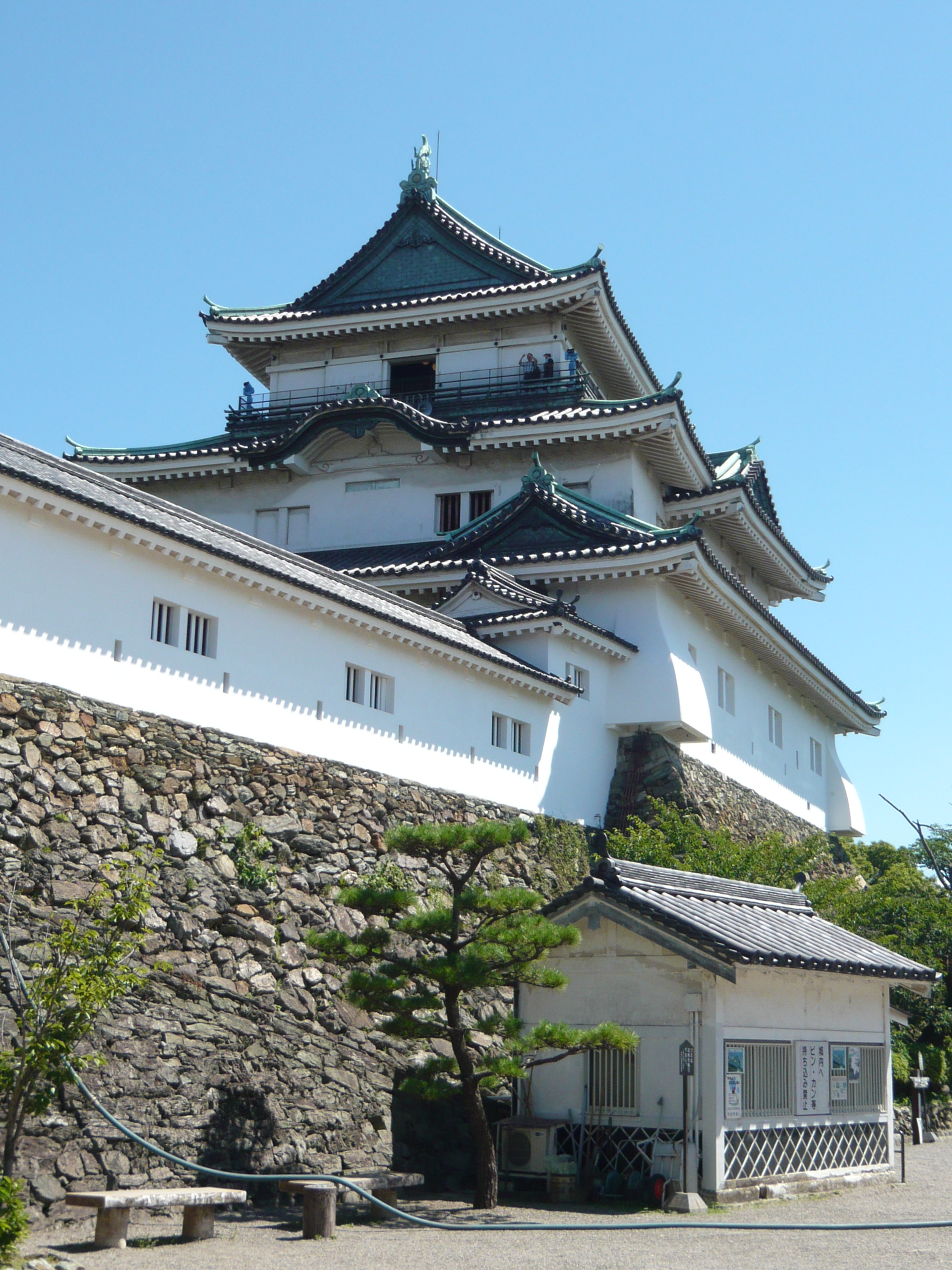 和歌山城天守閣 Keep tower of Wakayama castle 2011.7.15